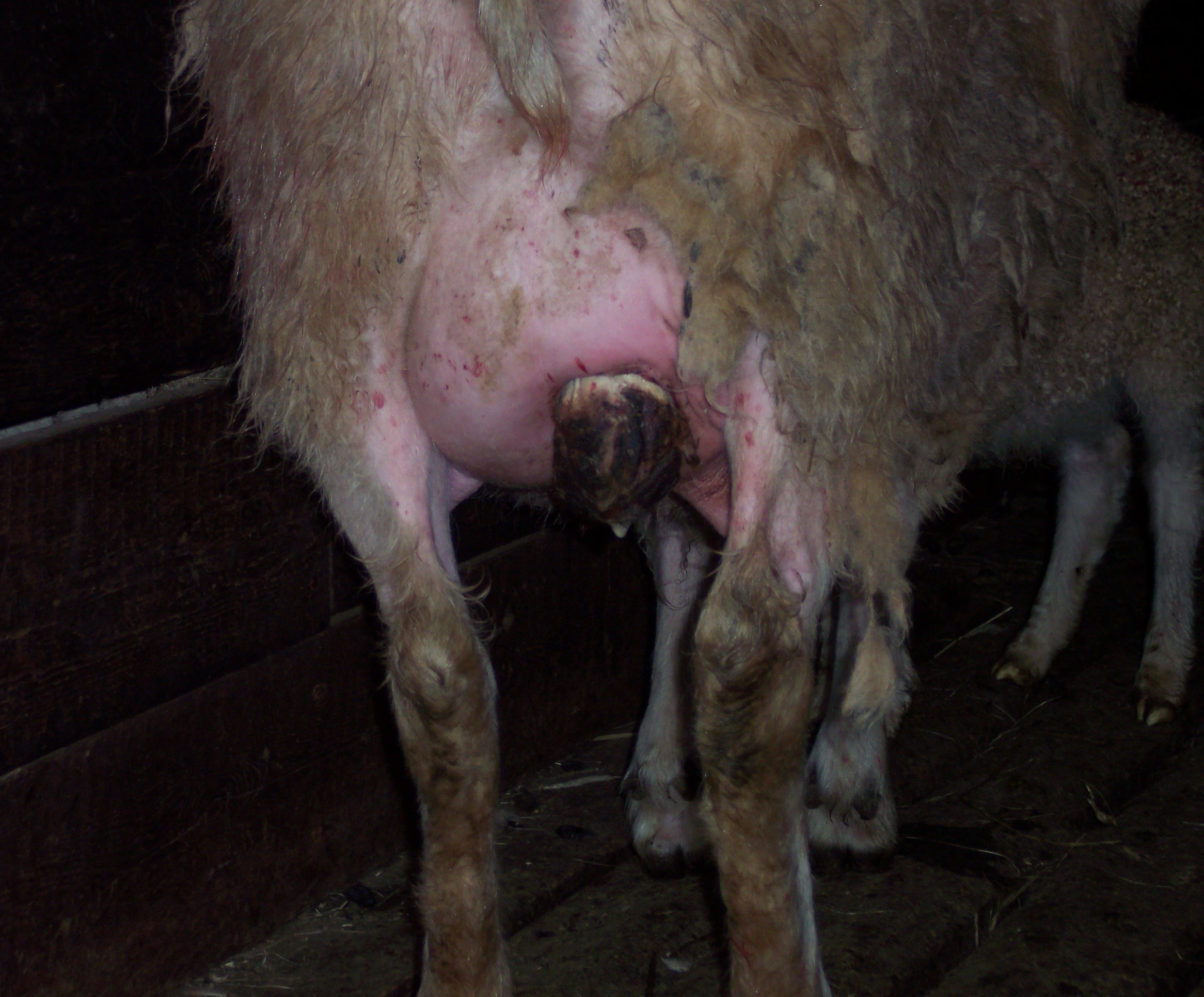 Mastitis in a sheep